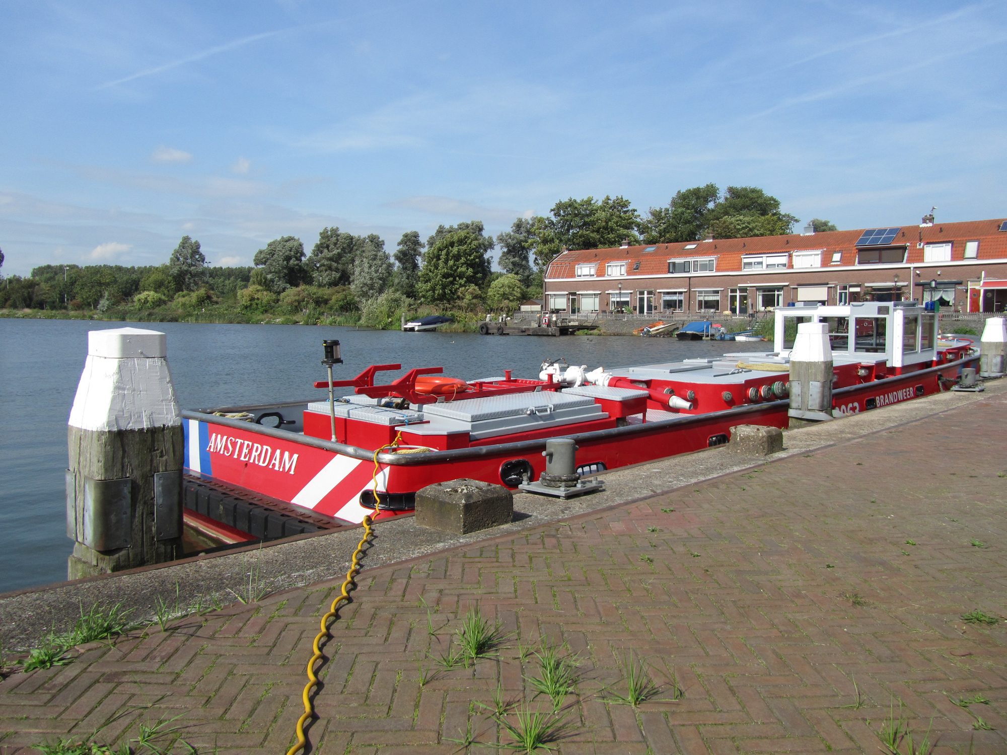 The Amsterdam fireboat Jan van der Heijde III, here docked at Oranjesluizen locks on the IJ. The flat design allows it to pass under small bridges in order to fight fires on the canals of Amsterdam.